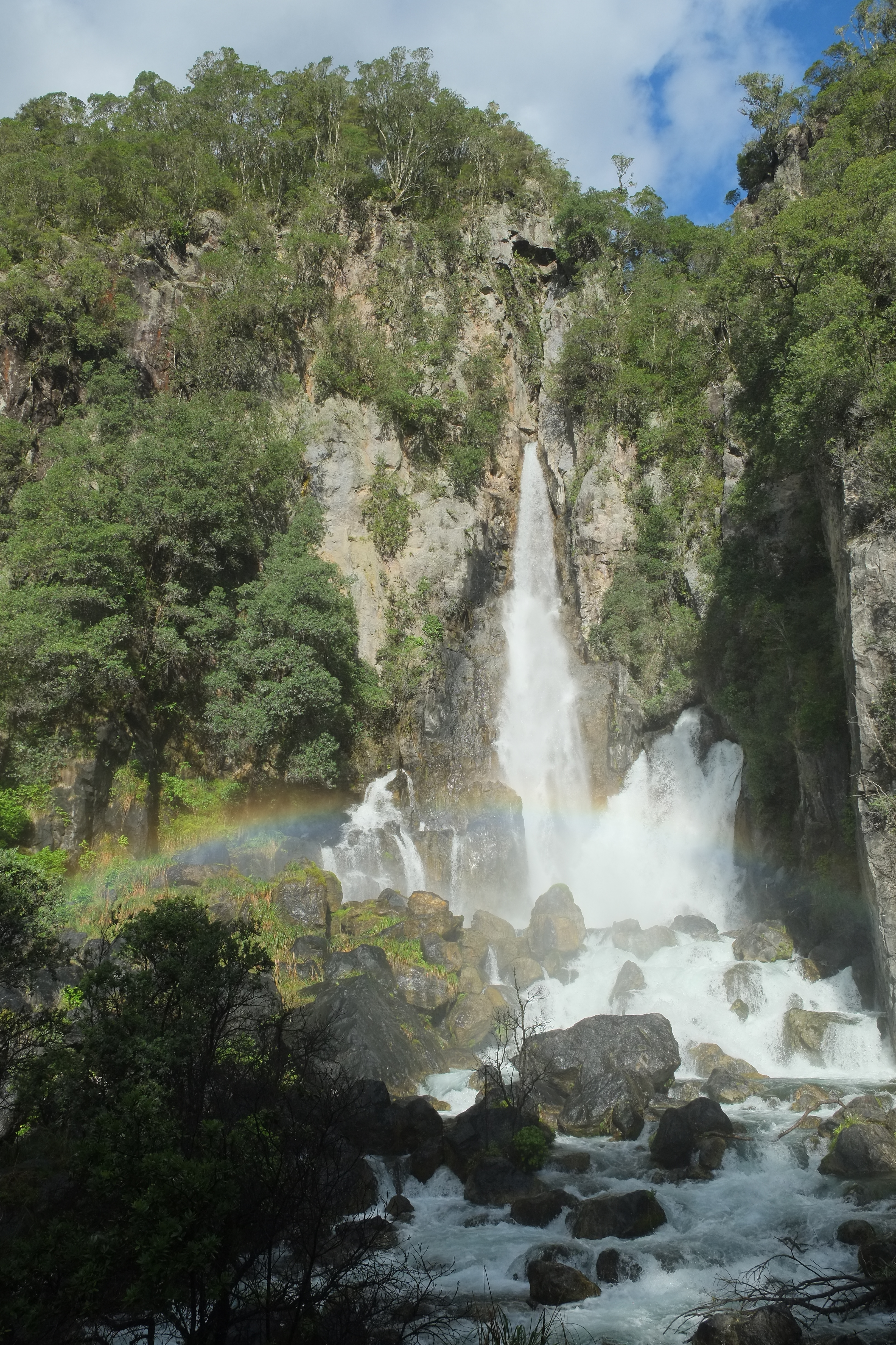 Tarawera Falls with rainbow